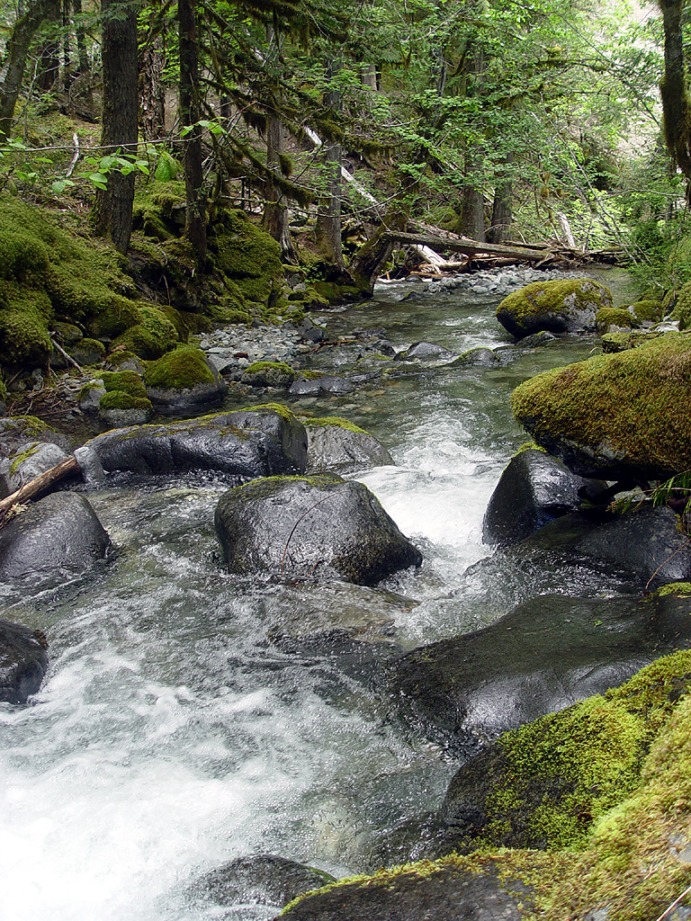 A small creek flowing from a lake in Bull of The Woods wilderness area in Oregon